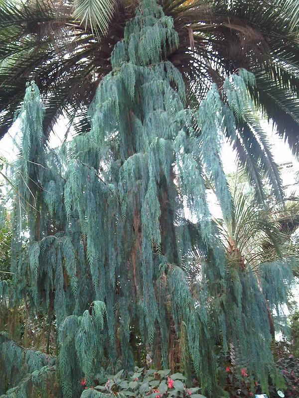 Bhutan Cypress or Kashmir Cypress (Cupressus cashmeriana) in Kew Gardens, London.